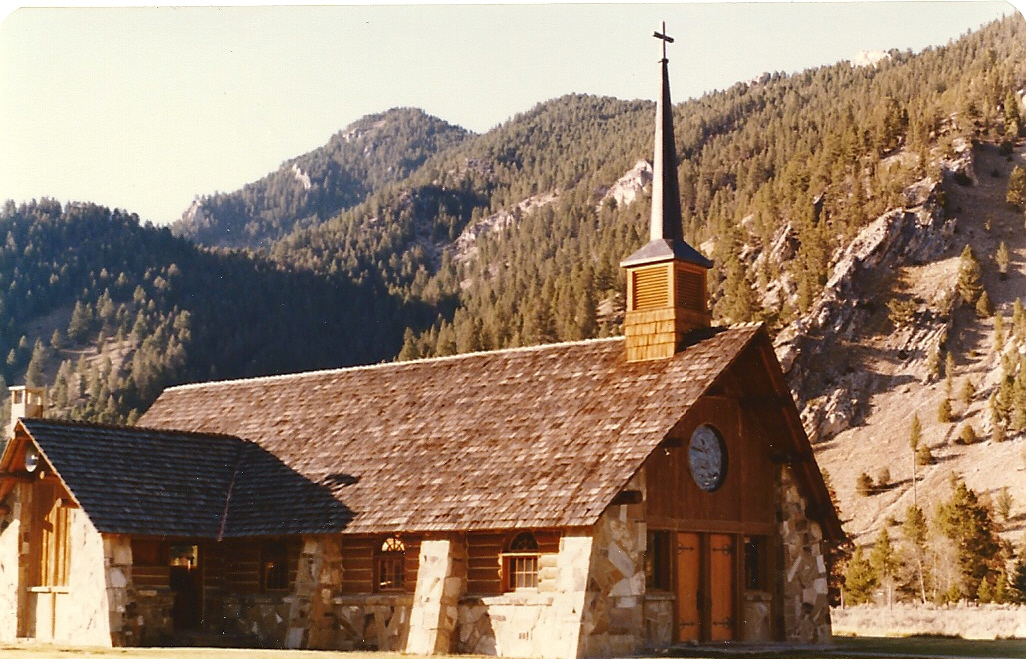 Soldiers Chapel, Gallatin County, Montana, this is a memorial to the 163rd Infantry Regiment of World War II